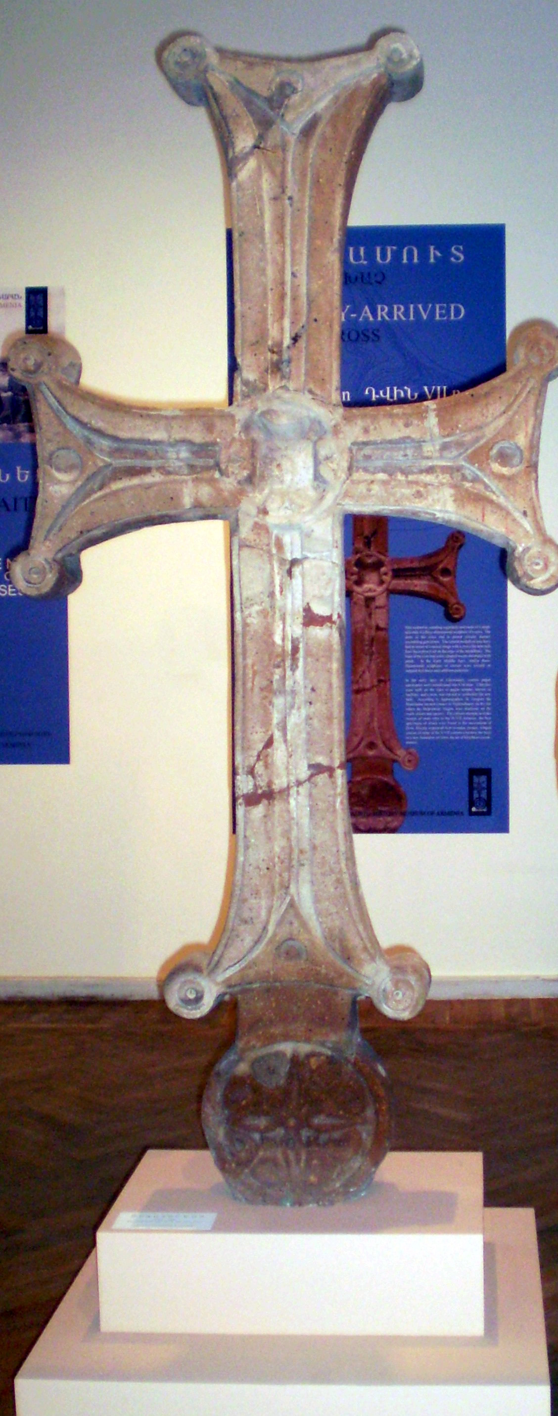 6 1/2 foot cross excavated from the ruins of Dvin.